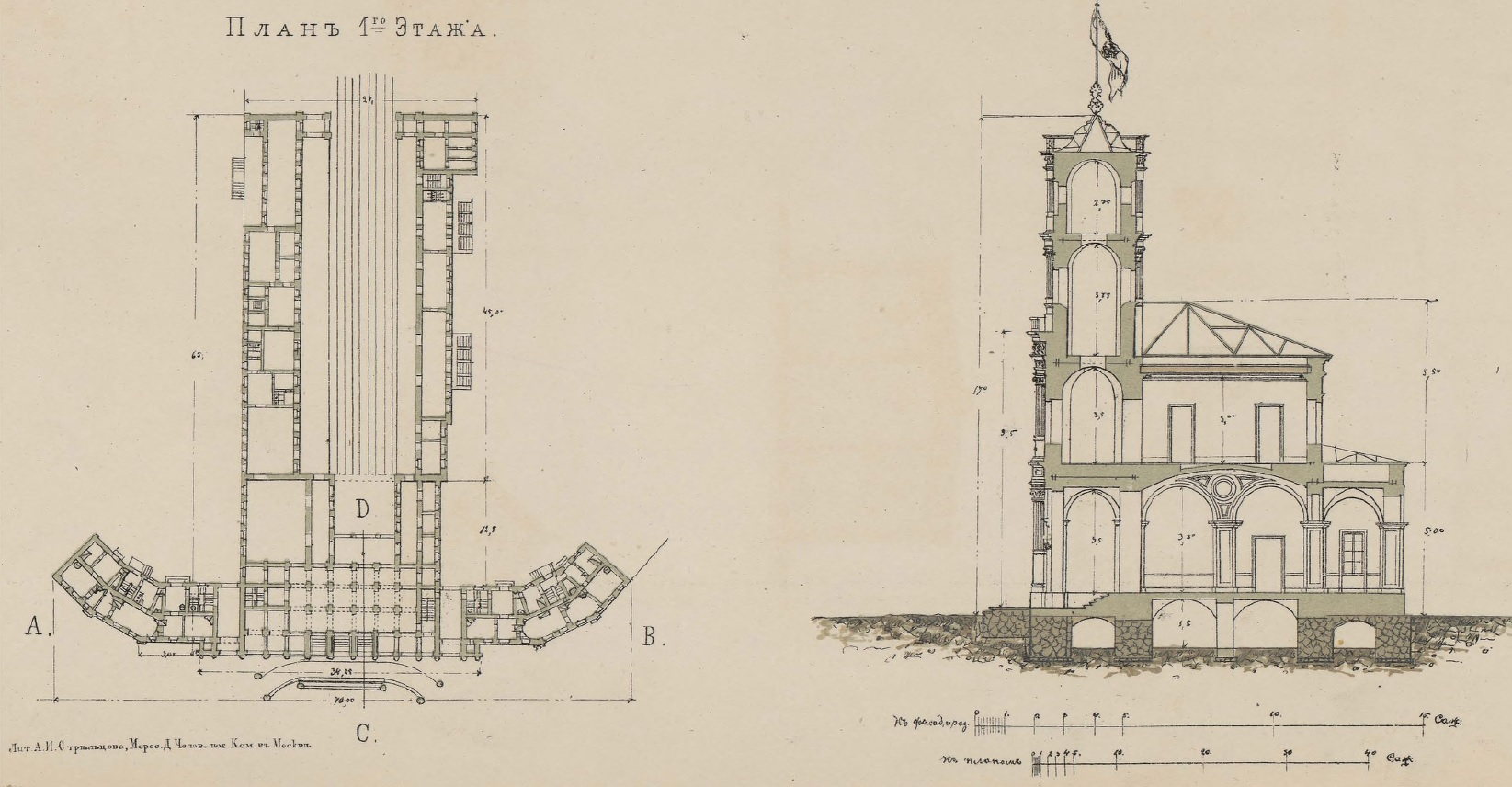 Saint Petersburg station. Saint Petersburg-Moscow railway.